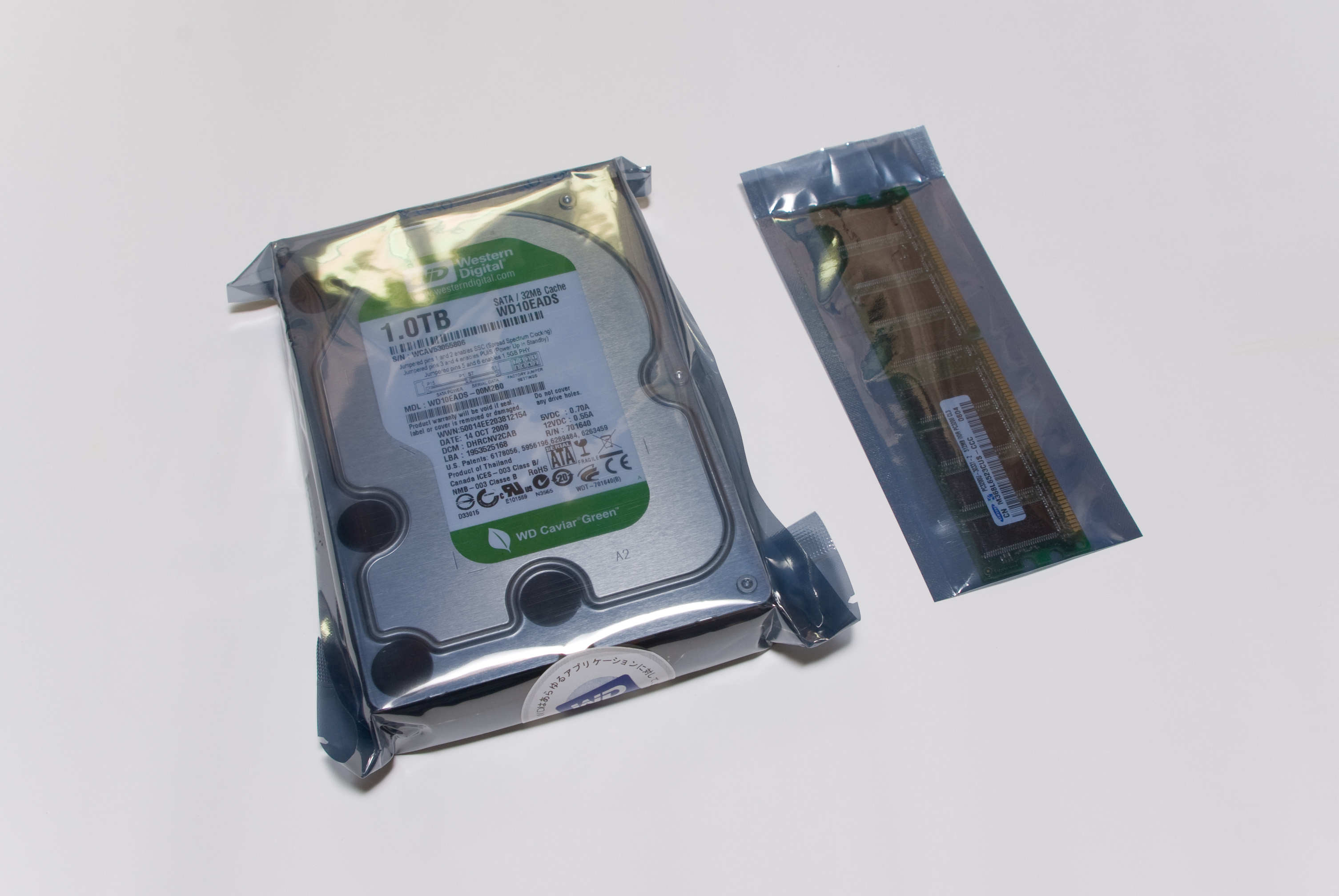 Plain-wrap Hard disk drive and Memory(RAM).